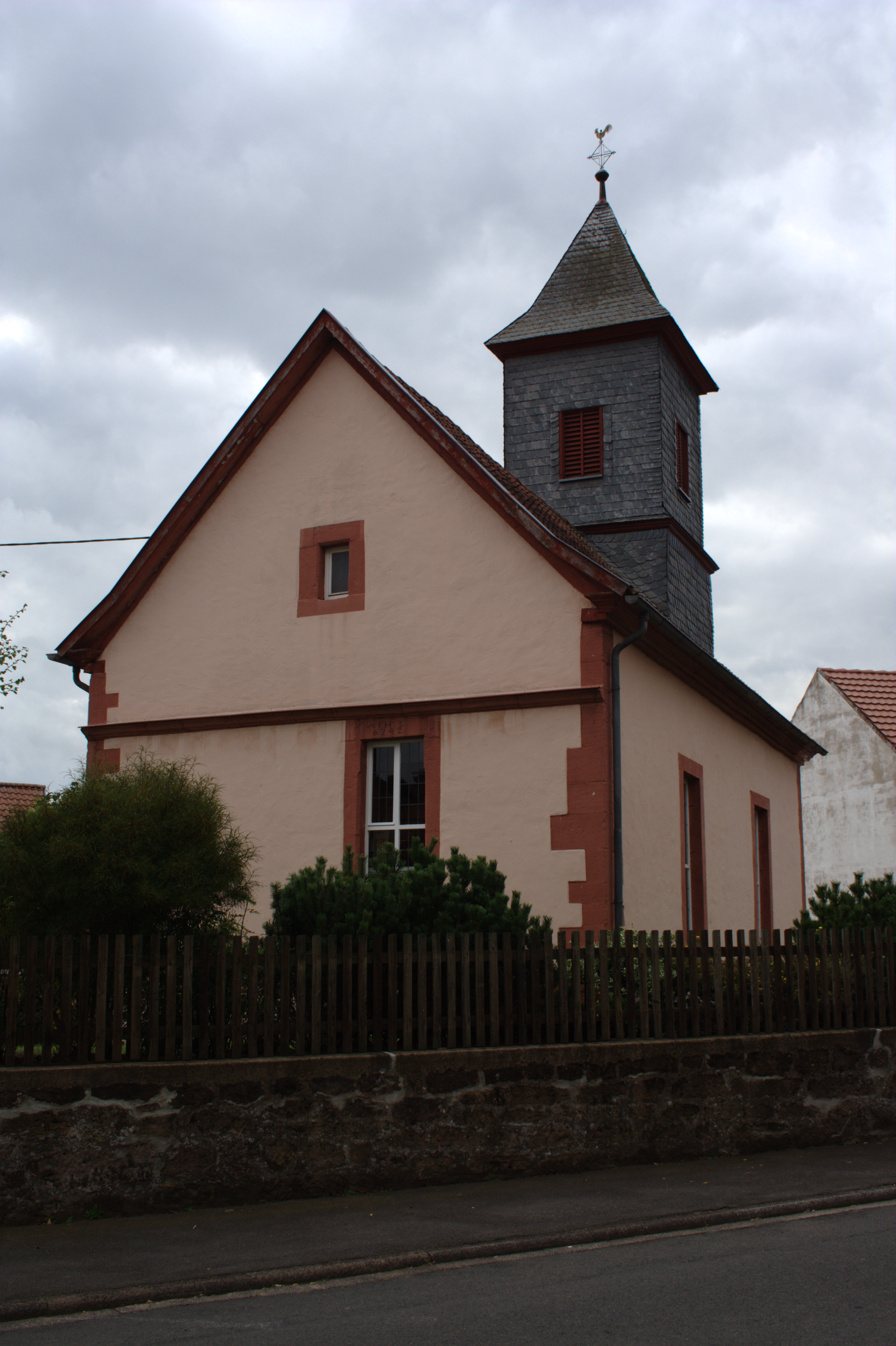 Church in Willofs / Schlitz / Hesse / Germany